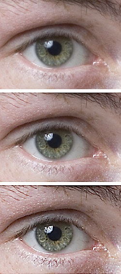 Human eye: original picture, picture after applying unsharp mask, oversharped picture